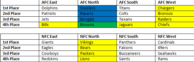 A sample NFL schedule